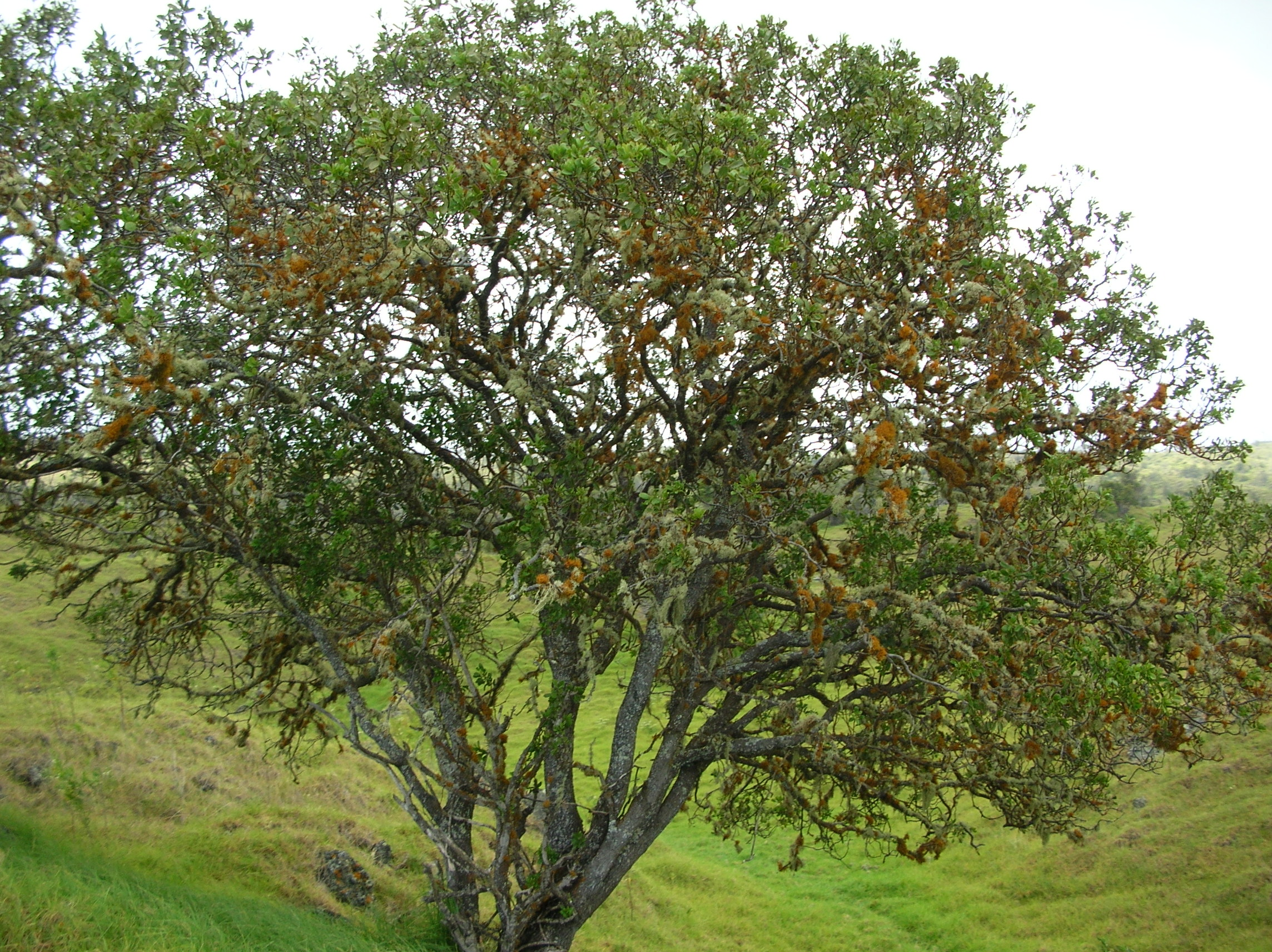 Santalum ellipticum (habit). Location: Maui, Auwahi